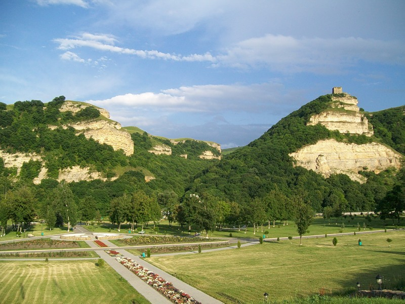 Tower Adijuh near the village Khabez